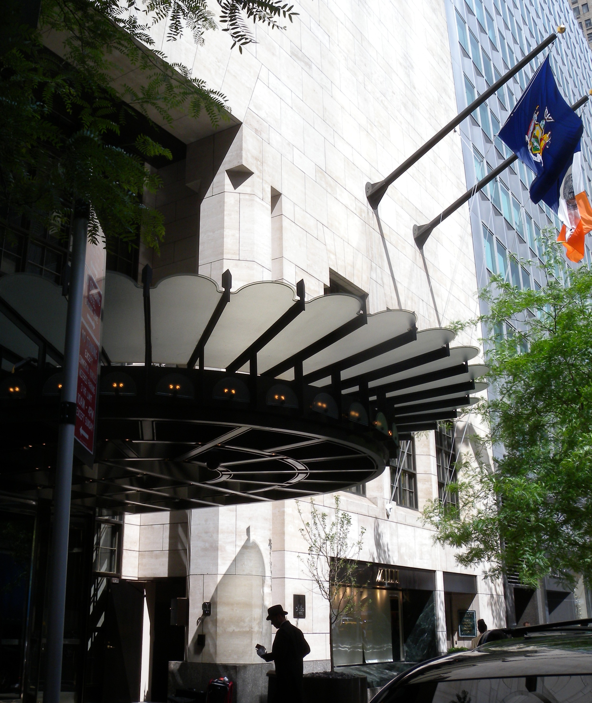 Looking east at entry of Four Seasons on a sunny afternoon.